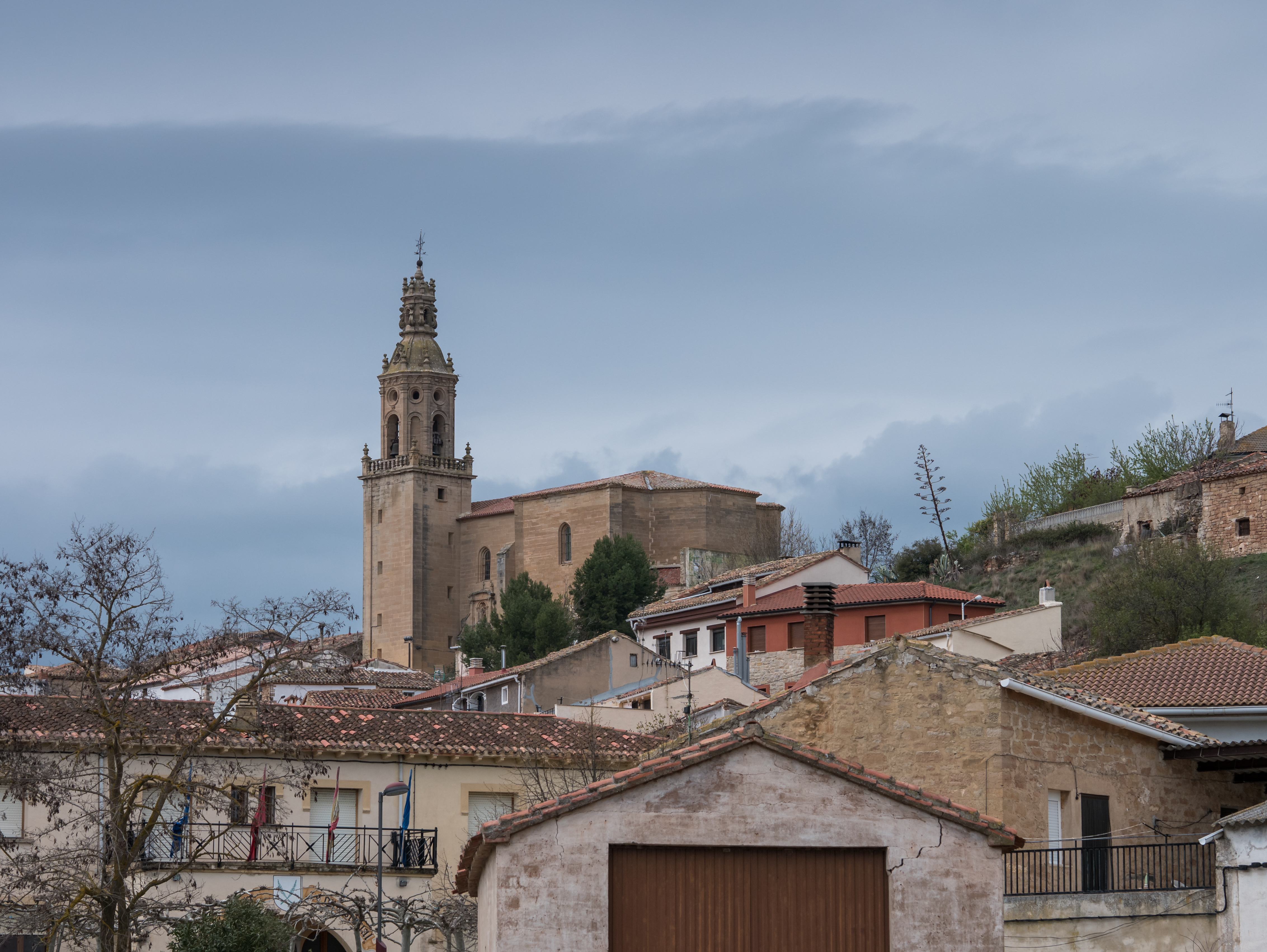 View of Desojo. Navarre, Spain